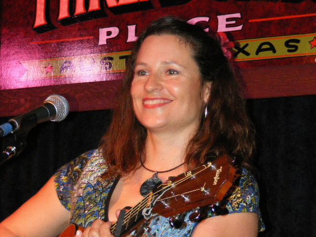 Audrey Auld at Threadgill's in Austin, TX. Photo by Ron Baker.